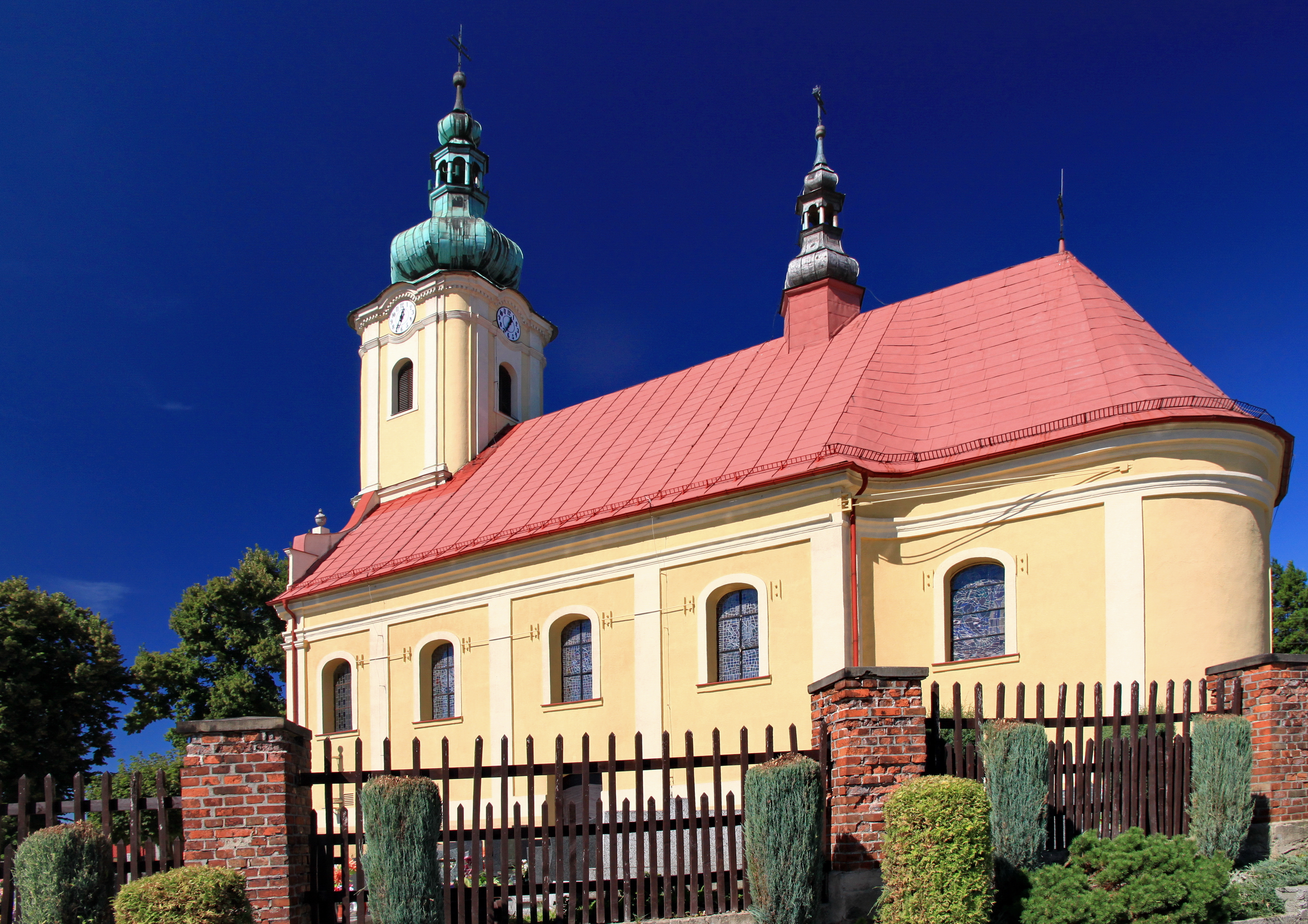 Krzyżowice, Saint Michael Archangel parish church, build in 1793-1799